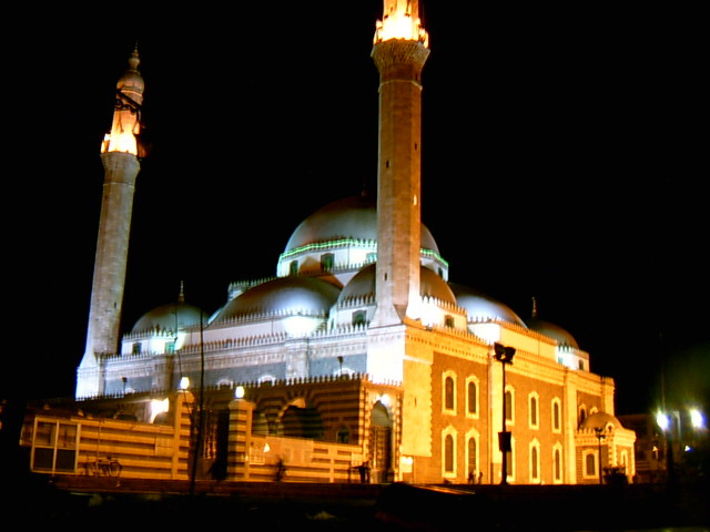 Mosque in Homs, Syria